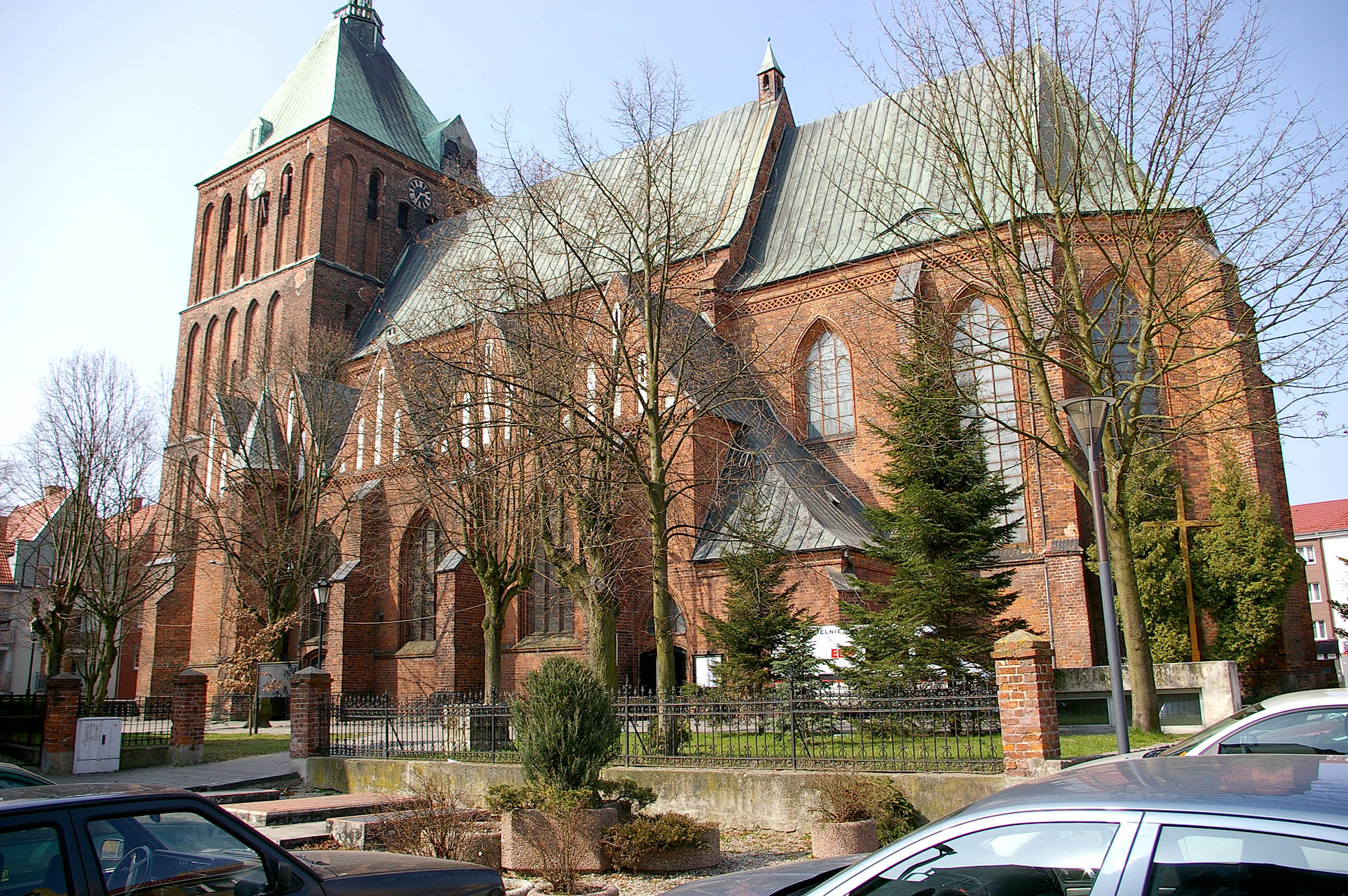 The Cathedral Church in Koszalin, Poland